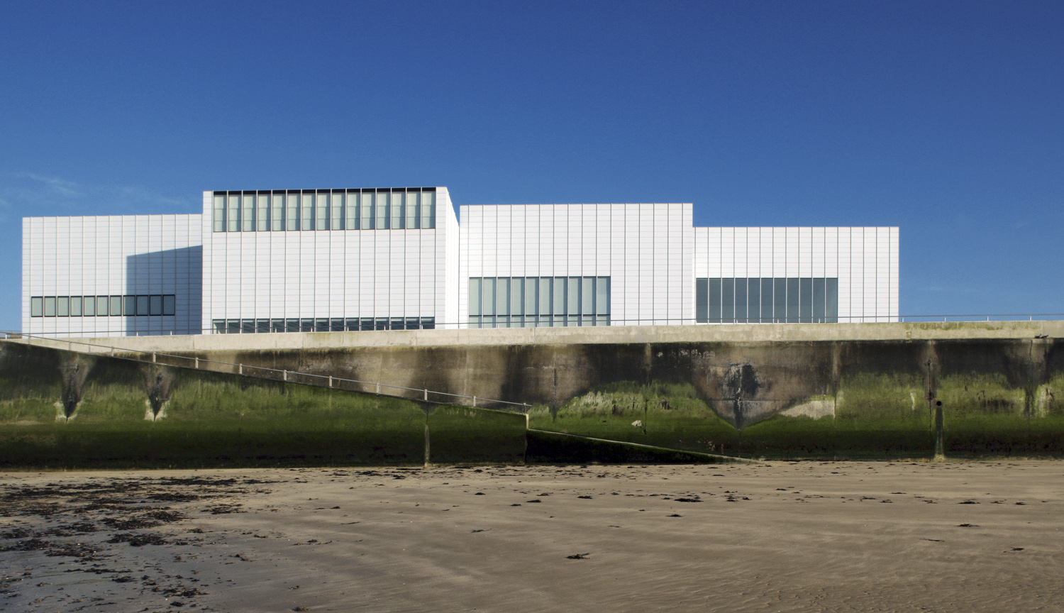 Turner Contemporary. Photo Carlos Dominquez